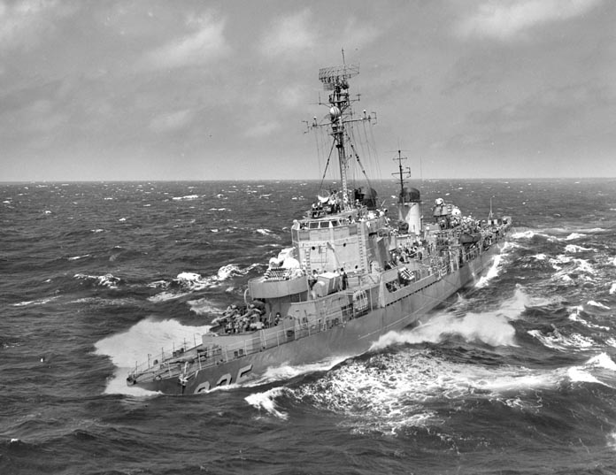 The U.S. Navy destroyer USS Carpenter (DDE-825) digs her bow into a whitecap-flecked sea as she comes alongside the aircraft carrier USS Boxer (CVA-21) during a Formosa Strait patrol, 20 August 1953.